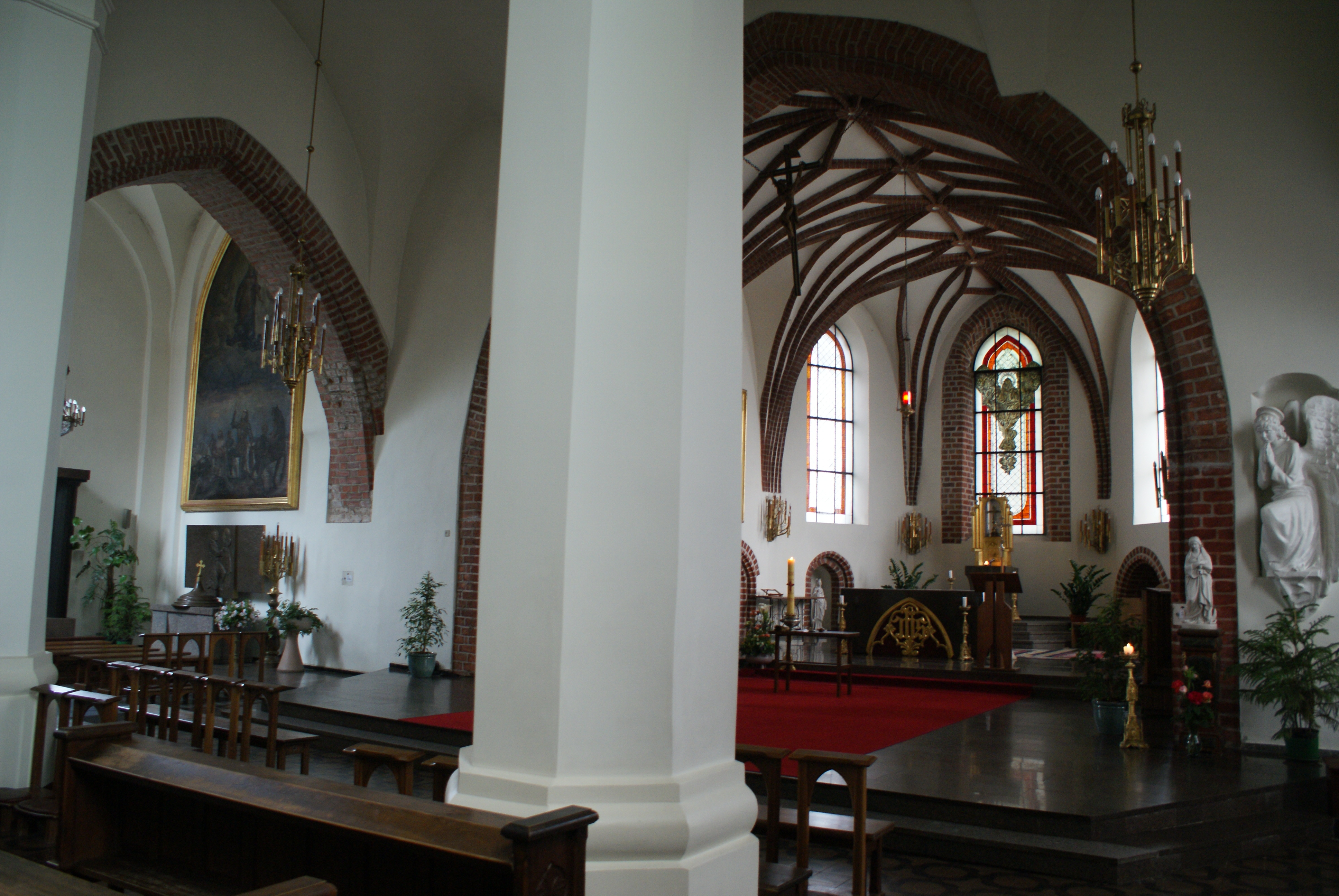 Church of the Assumption of The Holy Virgin Mary, Kaunas